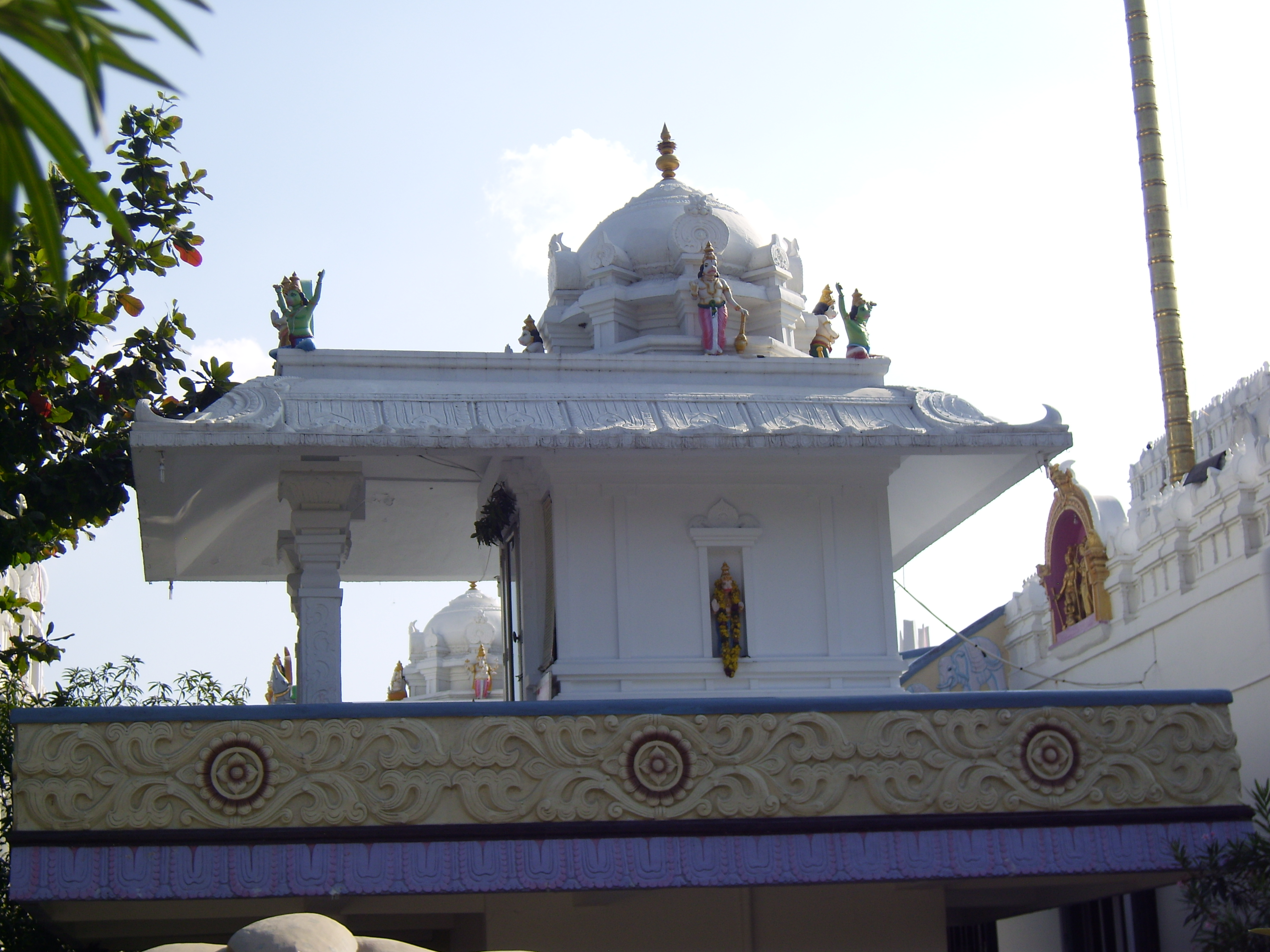 Ratnalayam Venkateswara Temple